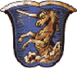 Coat of arms of Affing.